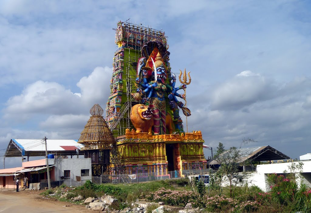 This is the rajagopuram at the Pratyangira temple, Hosur